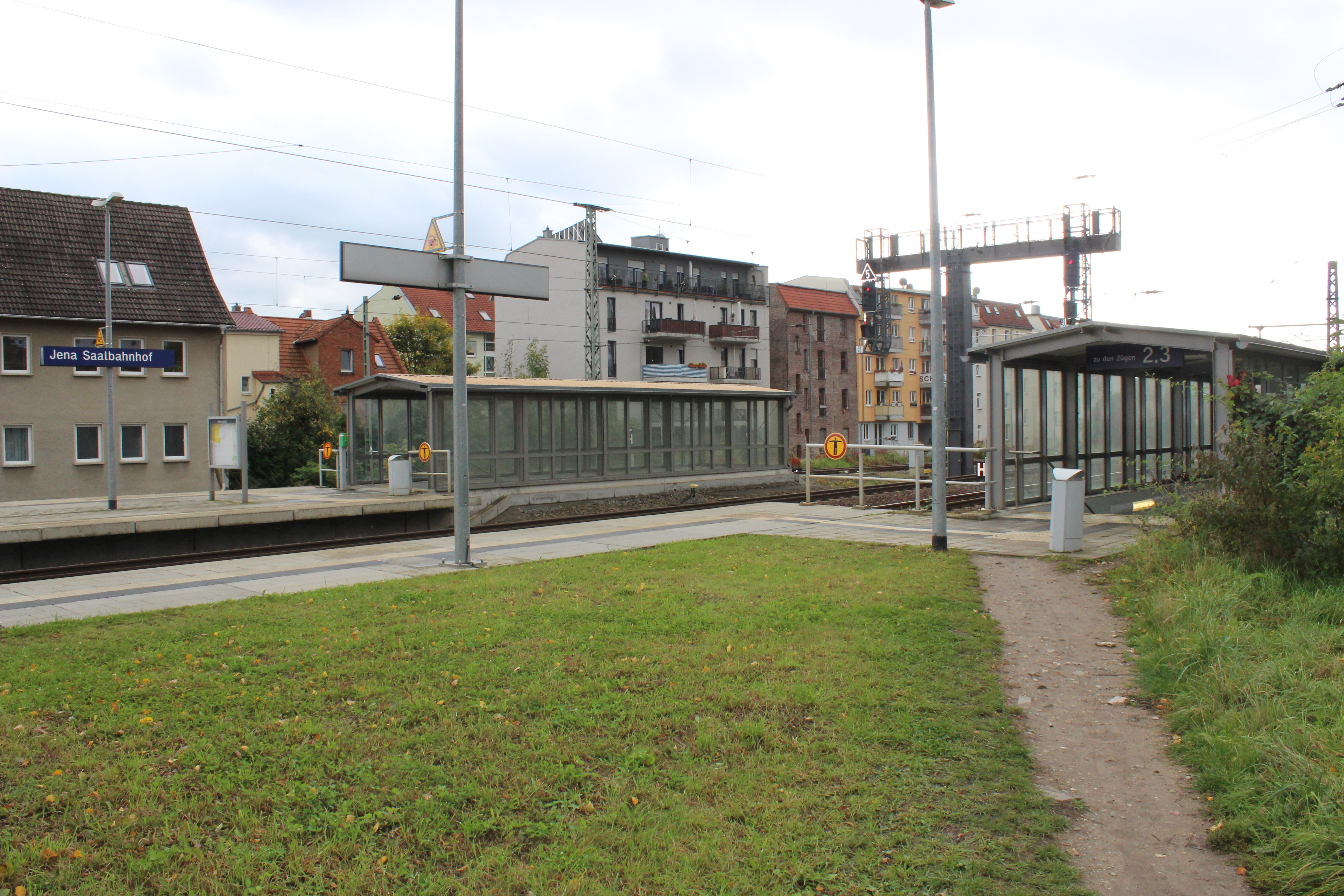 train station Jena Saalbahnhof, platforms